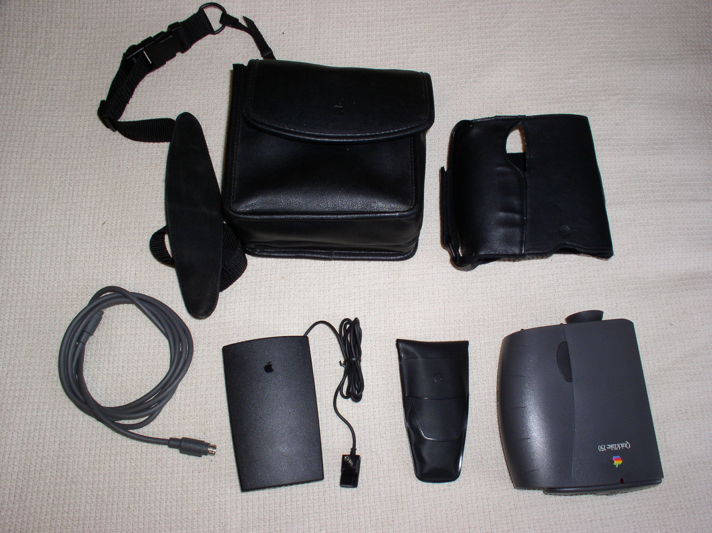 License: This work is licensed under a Creative Commons Attribution-ShareAlike 4.0 International License.